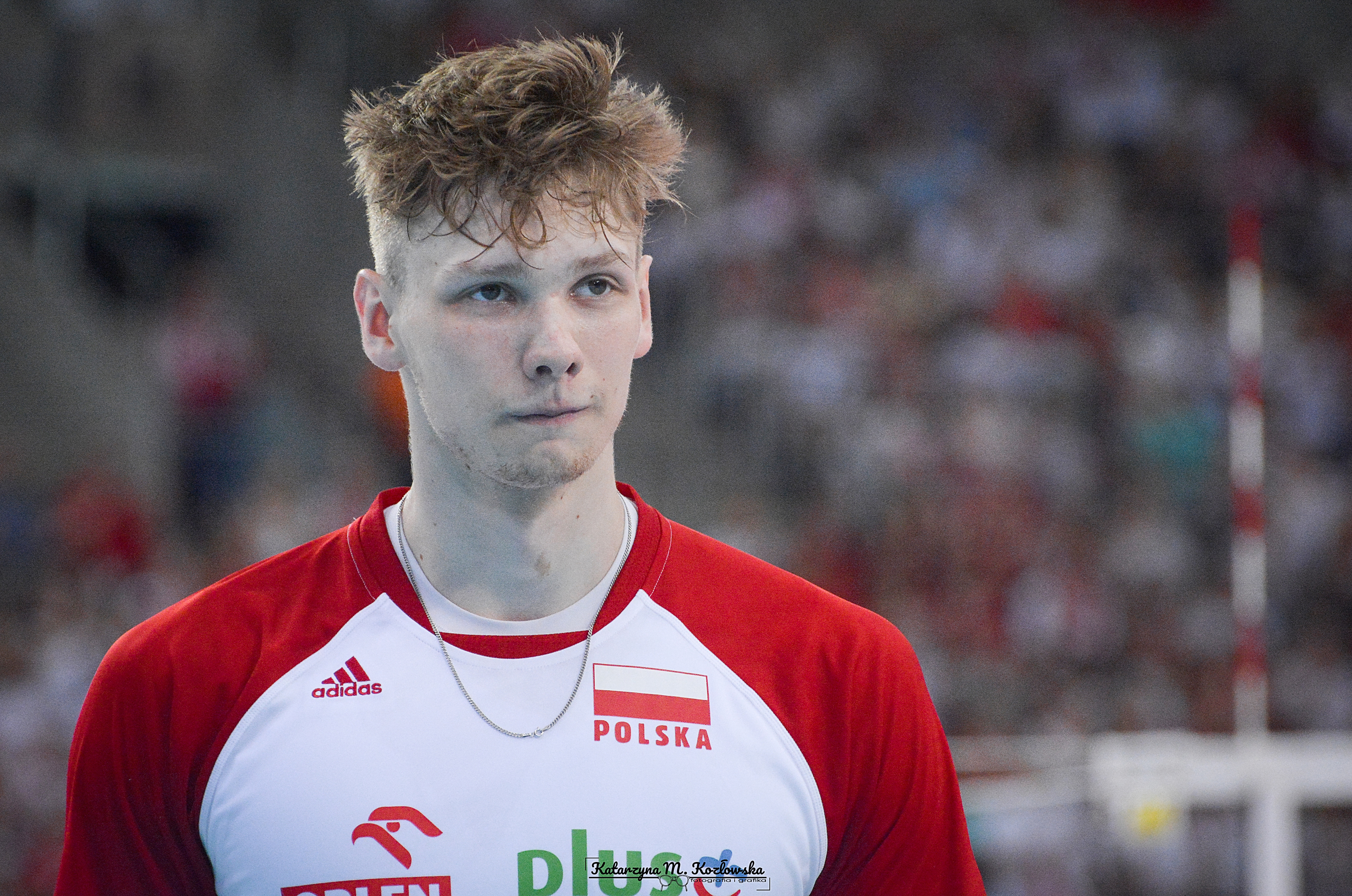 Jakub Kochanowski. Volleyball Nations League: Poland - France